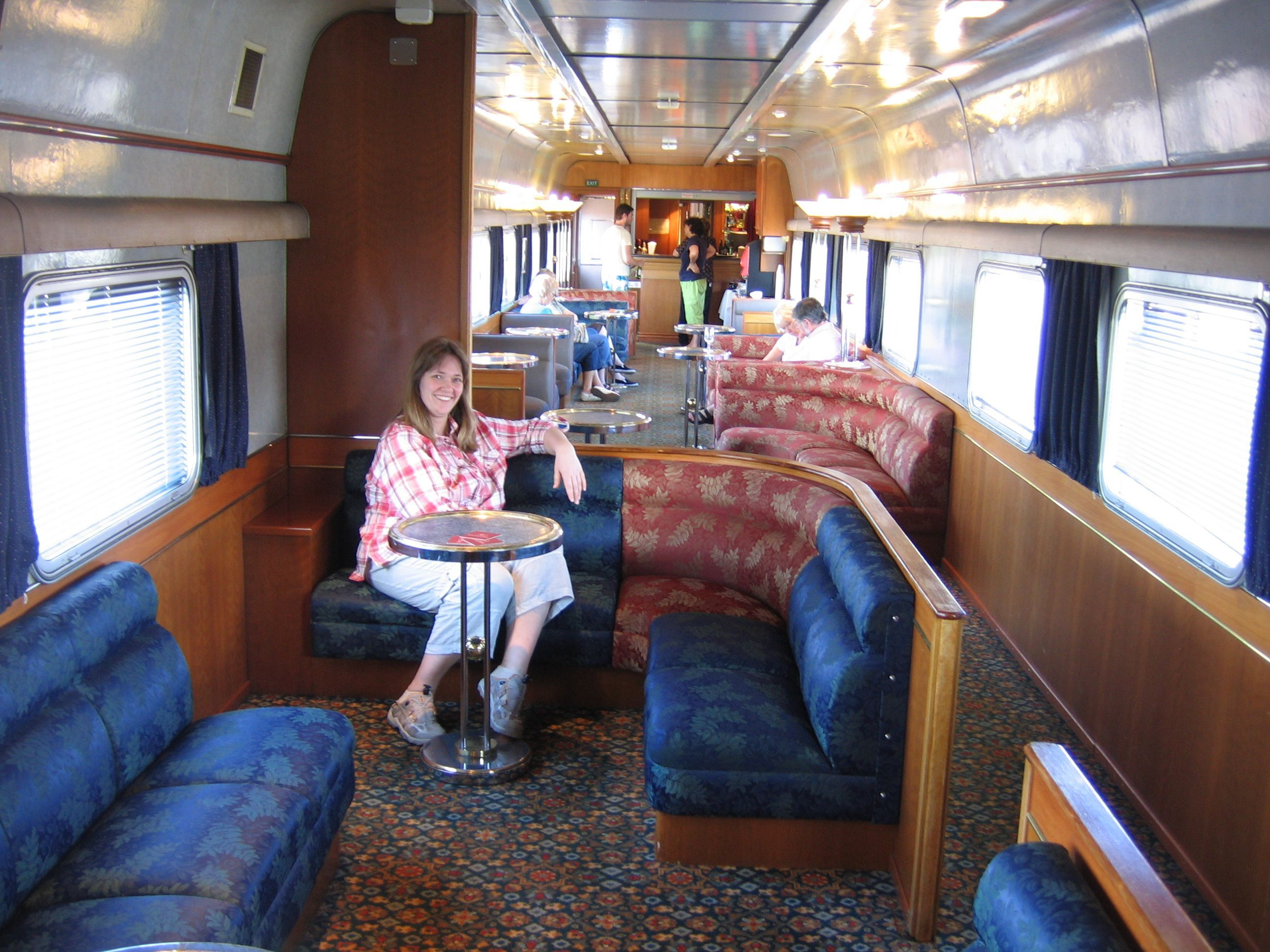 The Ghan, salon-car, first class